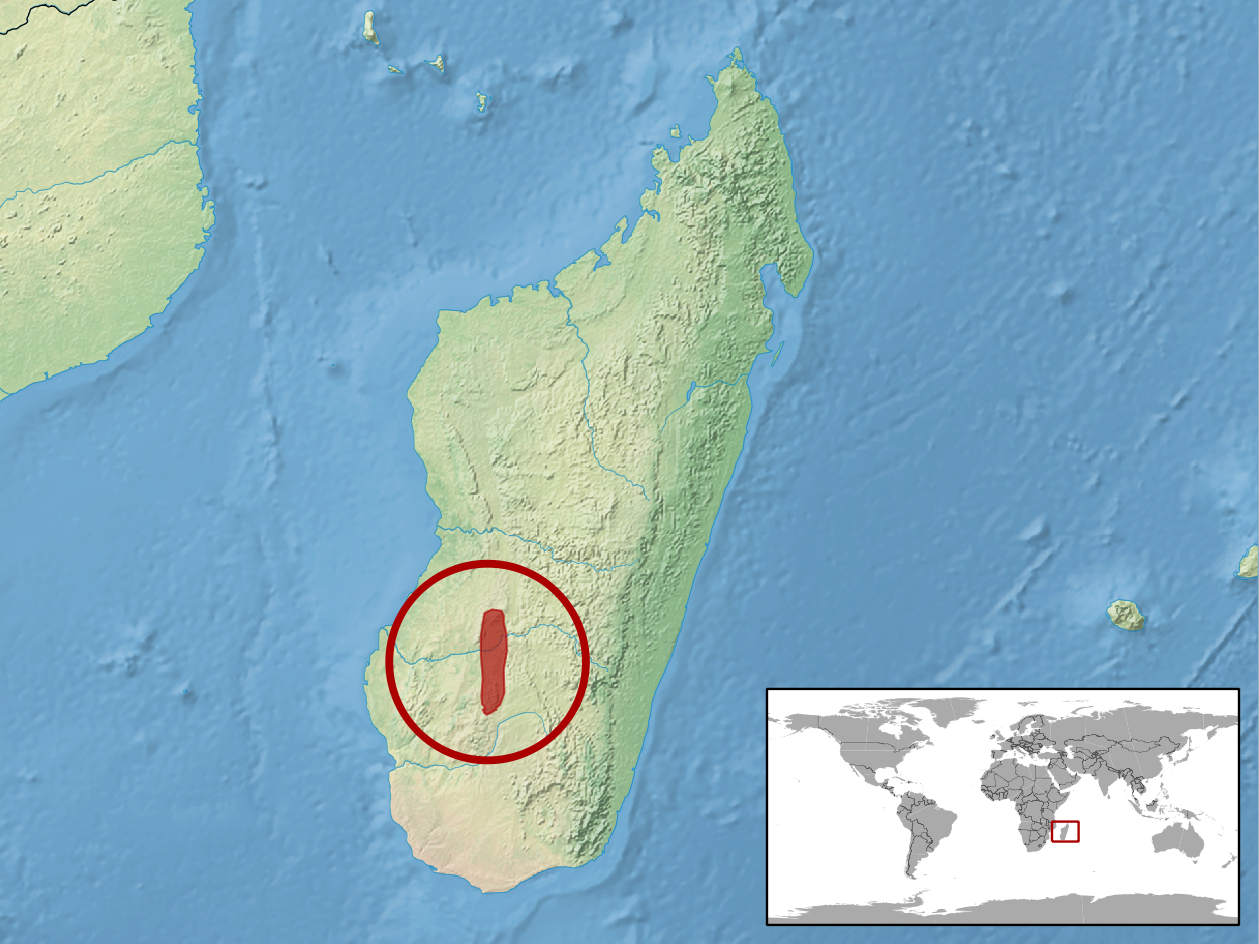 geographic distribution of Trachylepis nancycoutuae